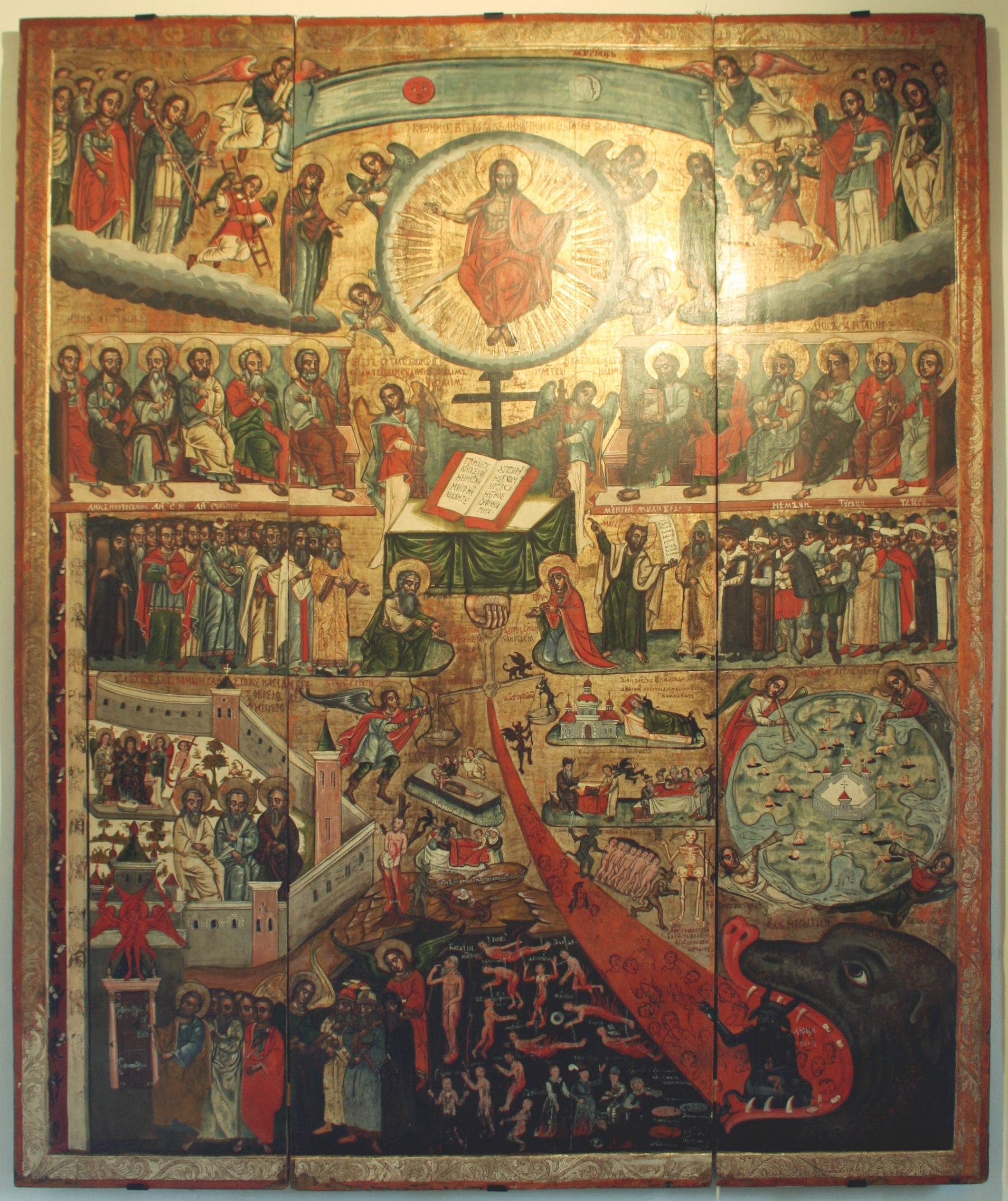 The Last Judgment – an icon of first half of the 17th cent. from Lipie, Historic Museum in Sanok, Poland